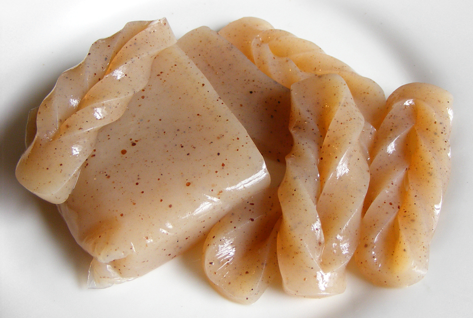 "Reins konjac", cut and twisted. cf.